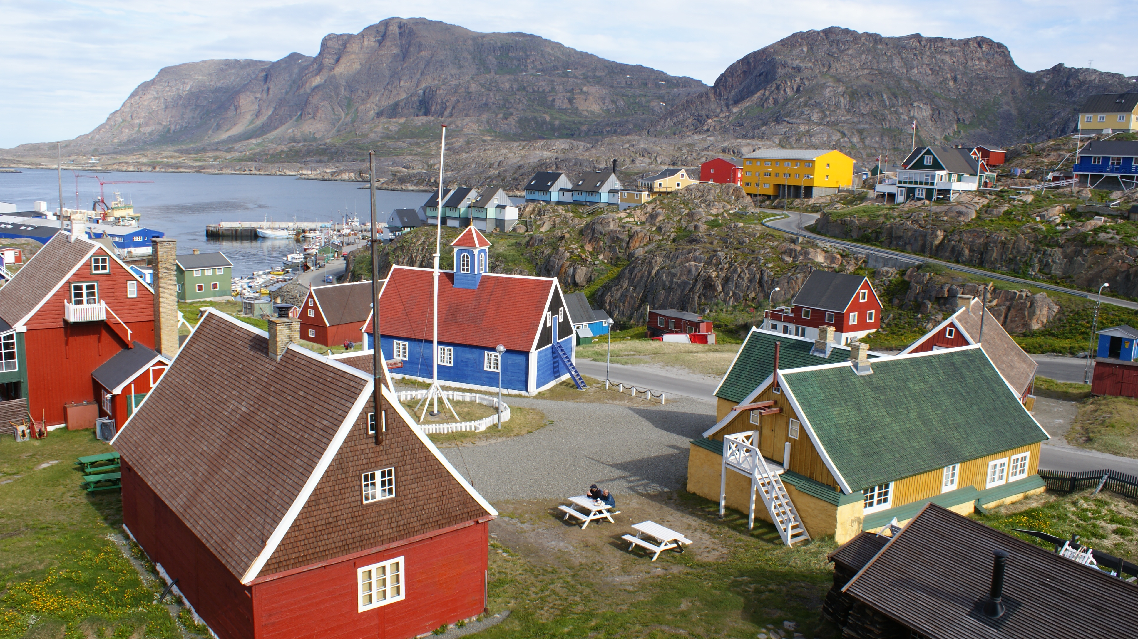 Sisimiut, Greenland. The old Bethel church (1775) and Sisimiut Museum on the first plane, Kangerluarsunnguaq Bay and the Palasip Qaqqaa mountain (544m) on the last plane.